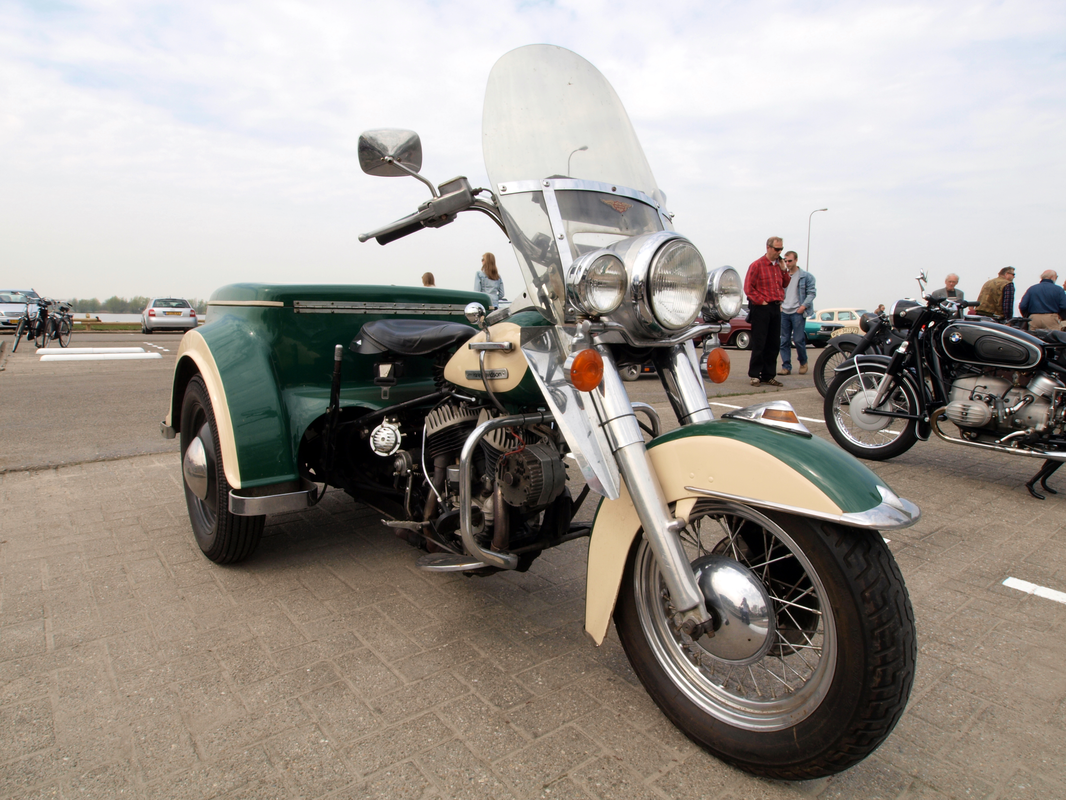 Cars and motorcycles photographed at the Voorschotense Oldtimer Vereniging Show, Valkenburgse meer, The Netherlands. OLYMPUS DIGITAL CAMERA